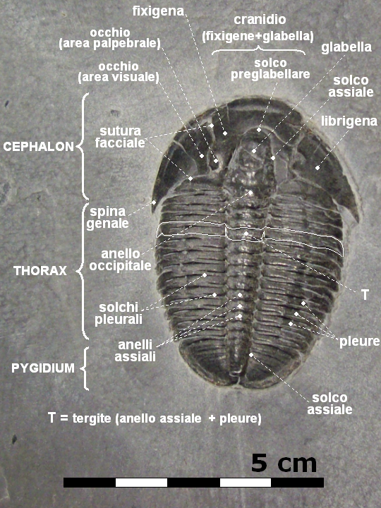 Trilobite Elrathia kingi (Middle Cambrian - Ohio, USA). Morphological terminology (text in Italian).